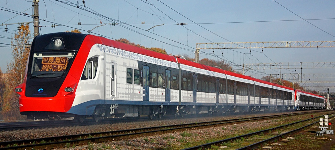 EG2Tv-004 (at left) and EG2Tv-005 on the way to VNIIZhT test circuit for testing. Russia, Tver region, Doroshikha station